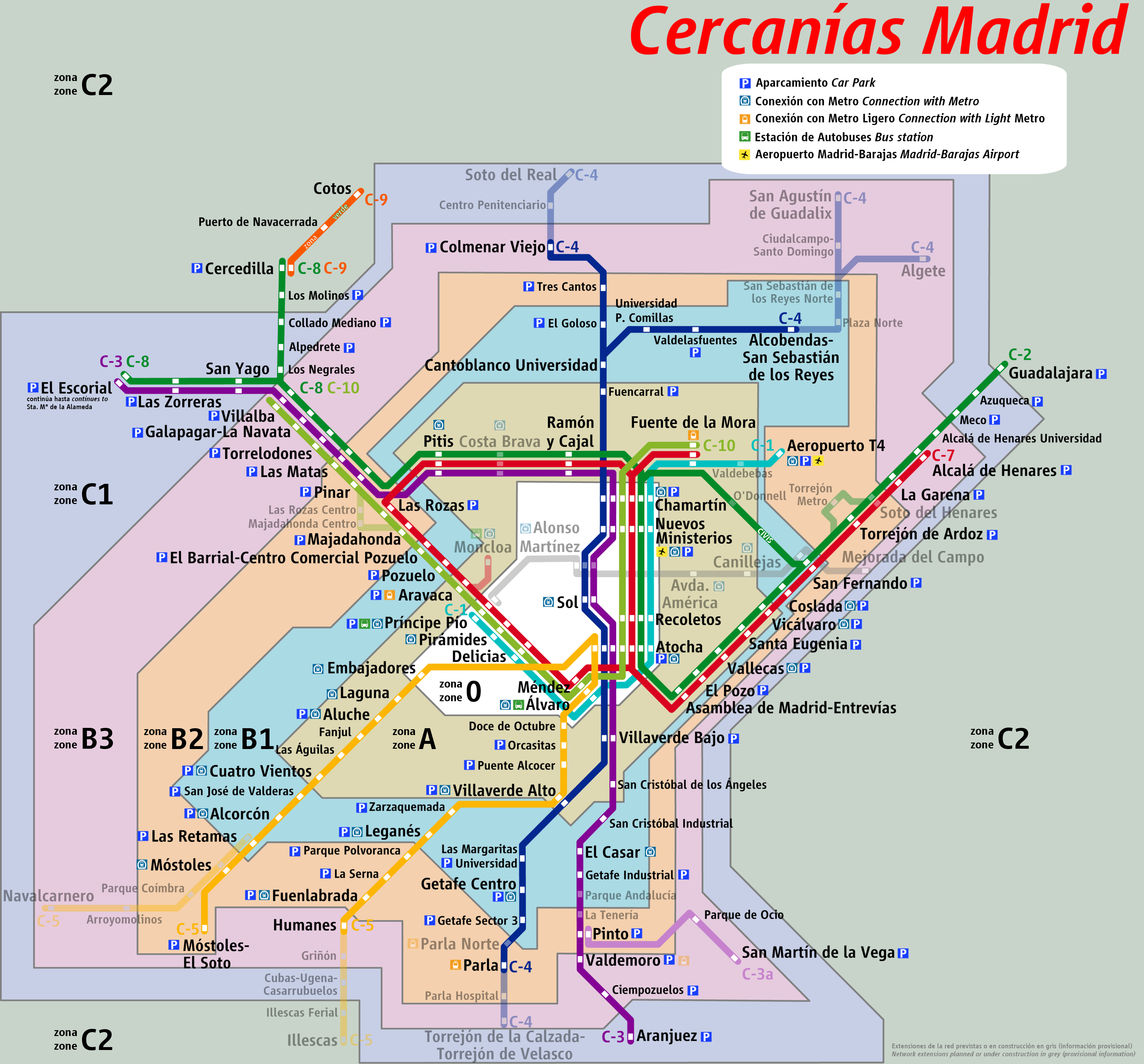 Map of Madrid suburban rail network zones (as of September 2011), with future extensions